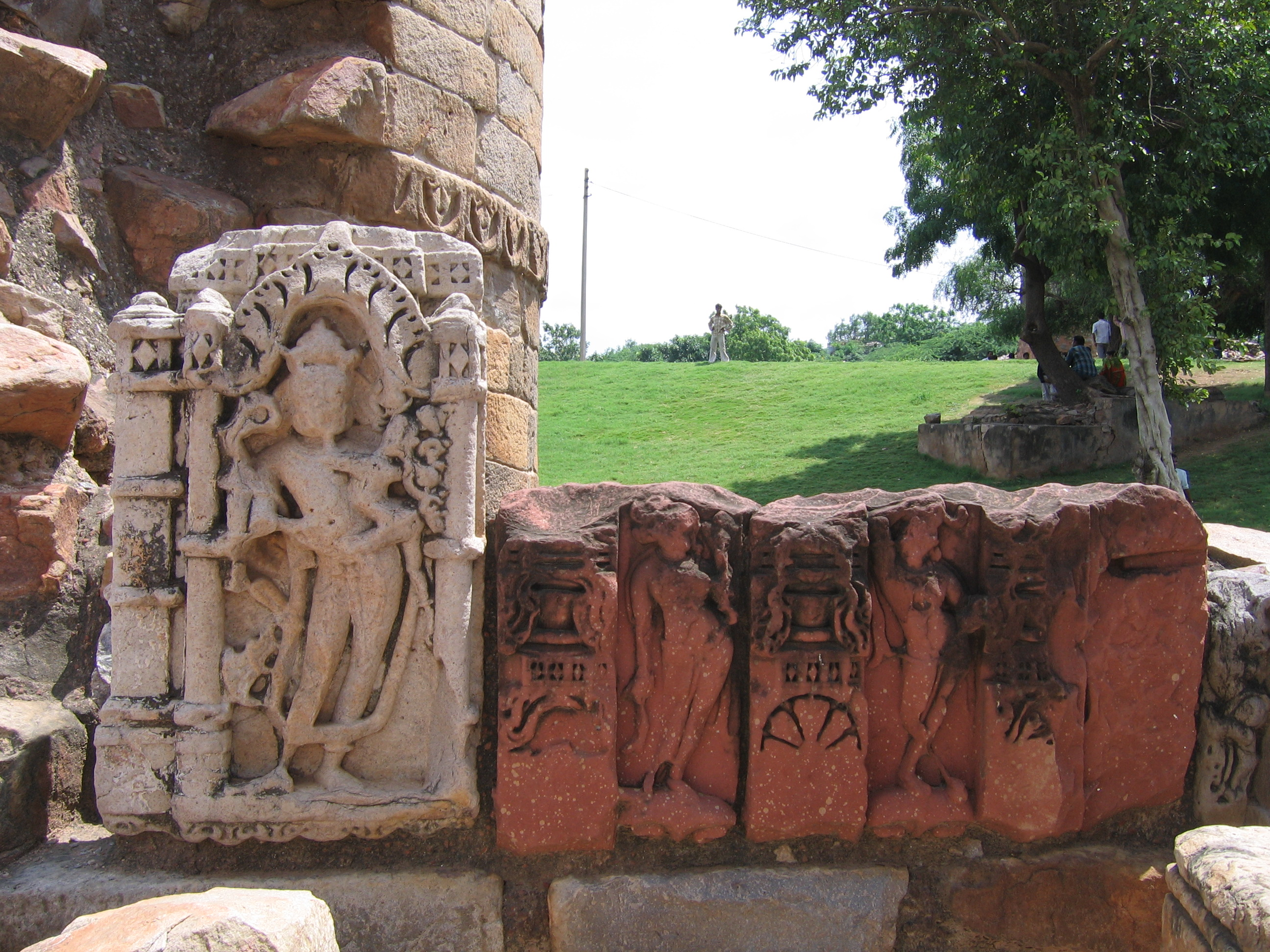 Statues from the ruins of Jain temples, Mehrauli Archaeological Park